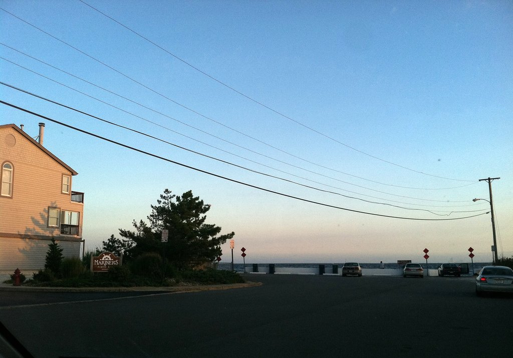 The beach at Graveling Point Located at the end of Radio Road on Osborn Island, a section of Mystic Island, a community in Little Egg Harbor Township, New Jersey, USA.